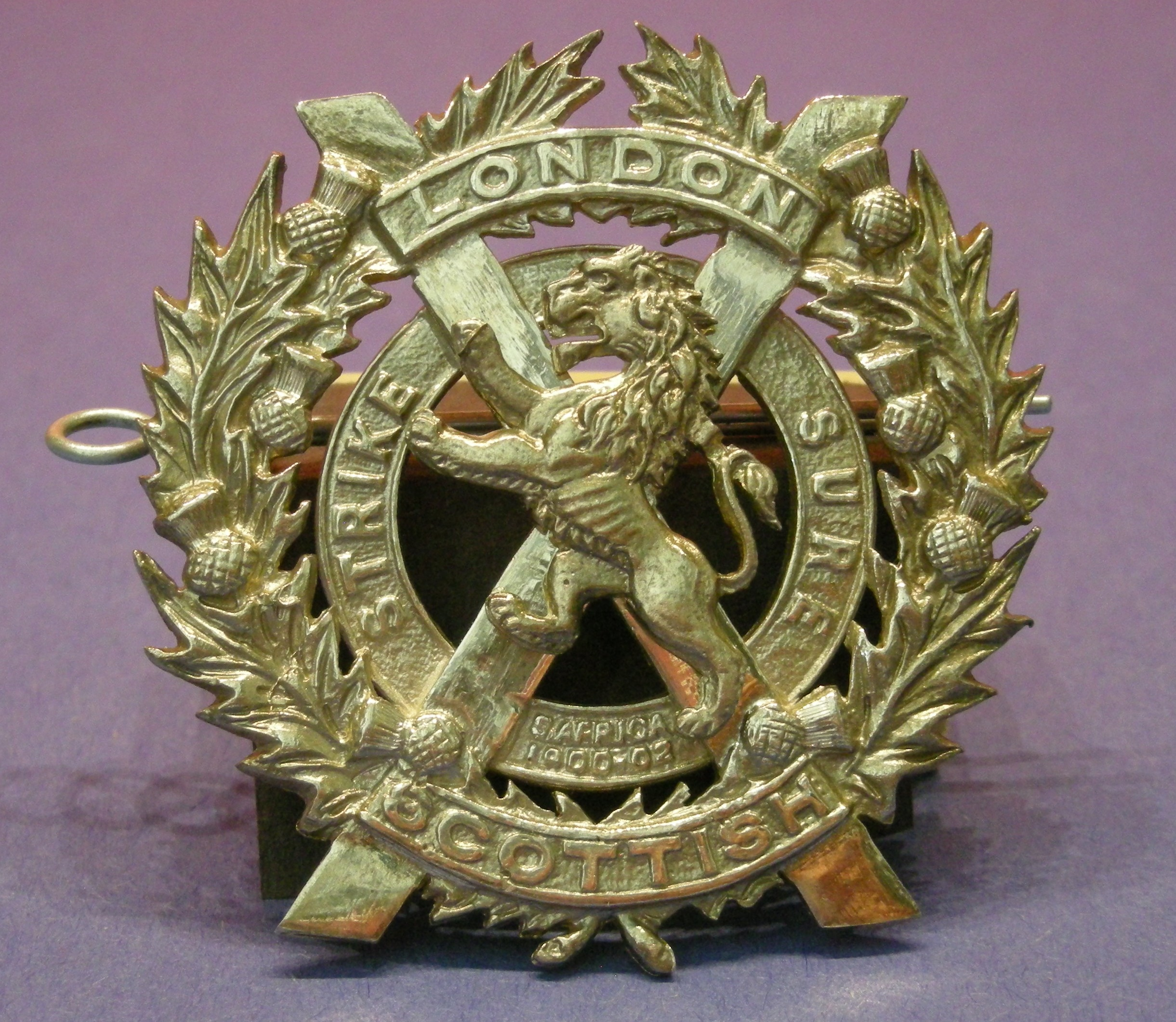 Cap badge of The London Scottish Regiment, an infantry unit of the British Army